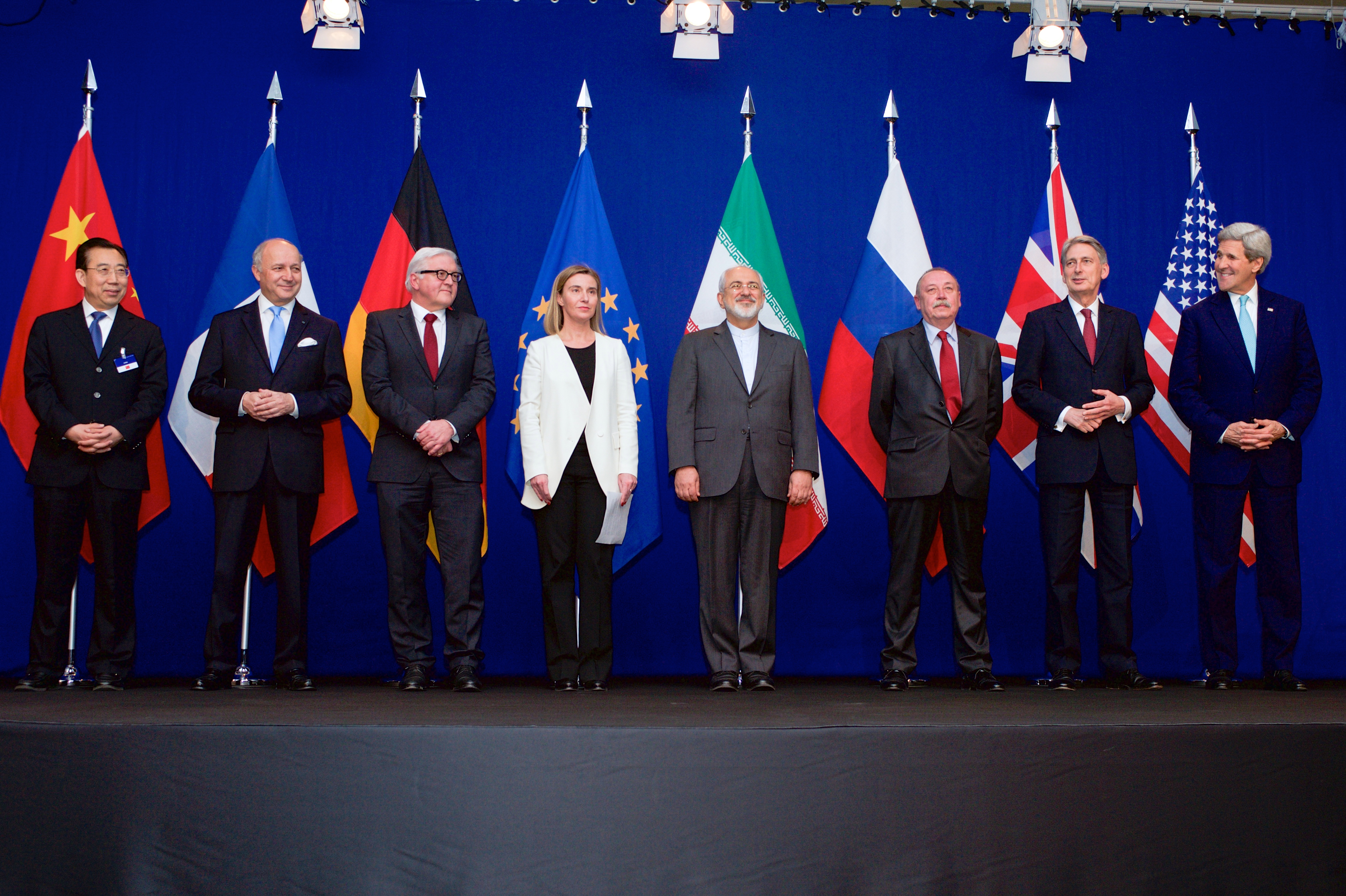 The ministers of foreign affairs and other officials from the P5+1 countries, the European Union and Iran while announcing the framework of a Comprehensive agreement on the Iranian nuclear programme. Hailong Wu of China, Laurent Fabius of France, Frank-Walter Steinmeier of Germany, Federica Mogherini of the European Union, Javad Zarif of Iran, an unidentified official of Russia, Philip Hammond of the United Kingdom and John Kerry of the United States in the "Forum Rolex" auditorium of the EPFL Learning Centre, Écublens-Lausanne, Switzerland on 2 April 2015.